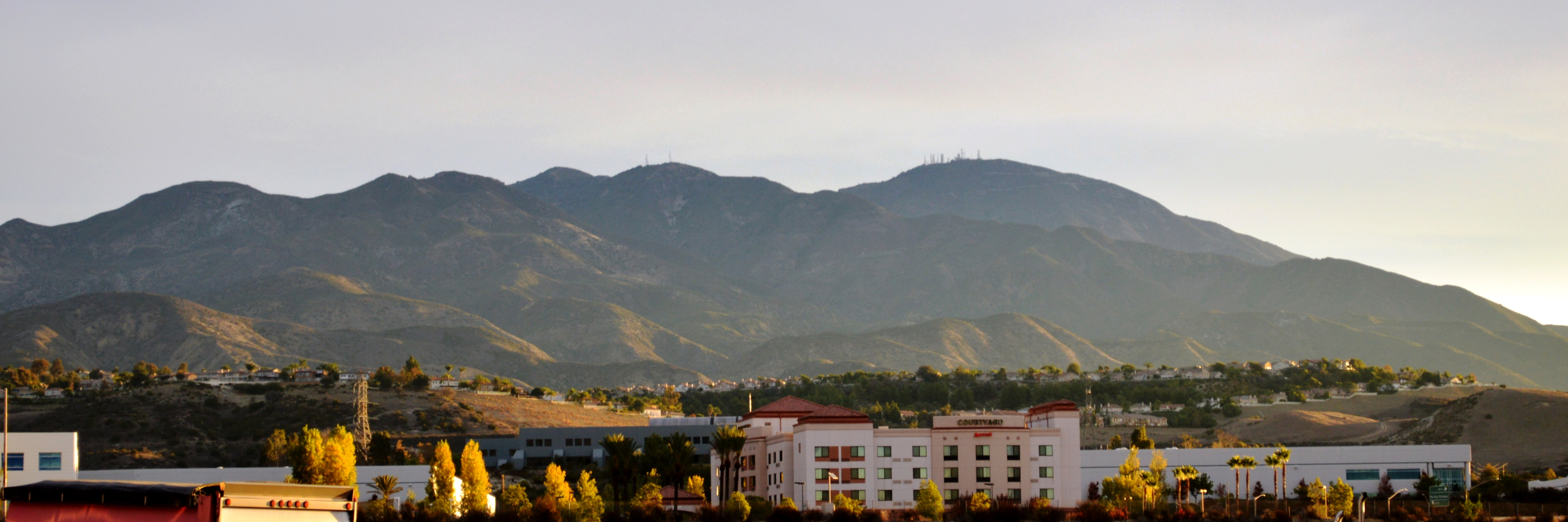 Saddleback as seen from Lake Forest, California, U.S.A., with some Foothill Ranch commercial buildings and Portola Hills homes in the foreground. Both Foothill Ranch and Portola Hills technically belong to the city of Lake Forest, but they are often viewed as separate areas. For example, the Marriott hotel pictured here uses a Foothill Ranch address.[1]